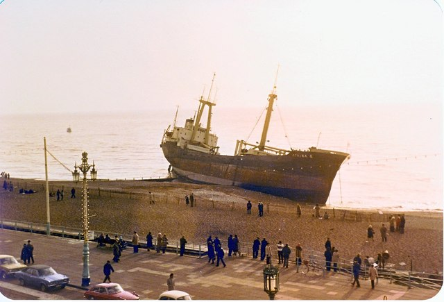 The "ATHINA B" Brighton Beach. This 3,500ton Greek registered ship was blown ashore in gale force winds after complete failure of her generator and steering gear, whilst sailing from France to Shoreham on January 21st 1980. All aboard were saved by the Shoreham Lifeboat. The ship, having broken her back was later towed away and scrapped.